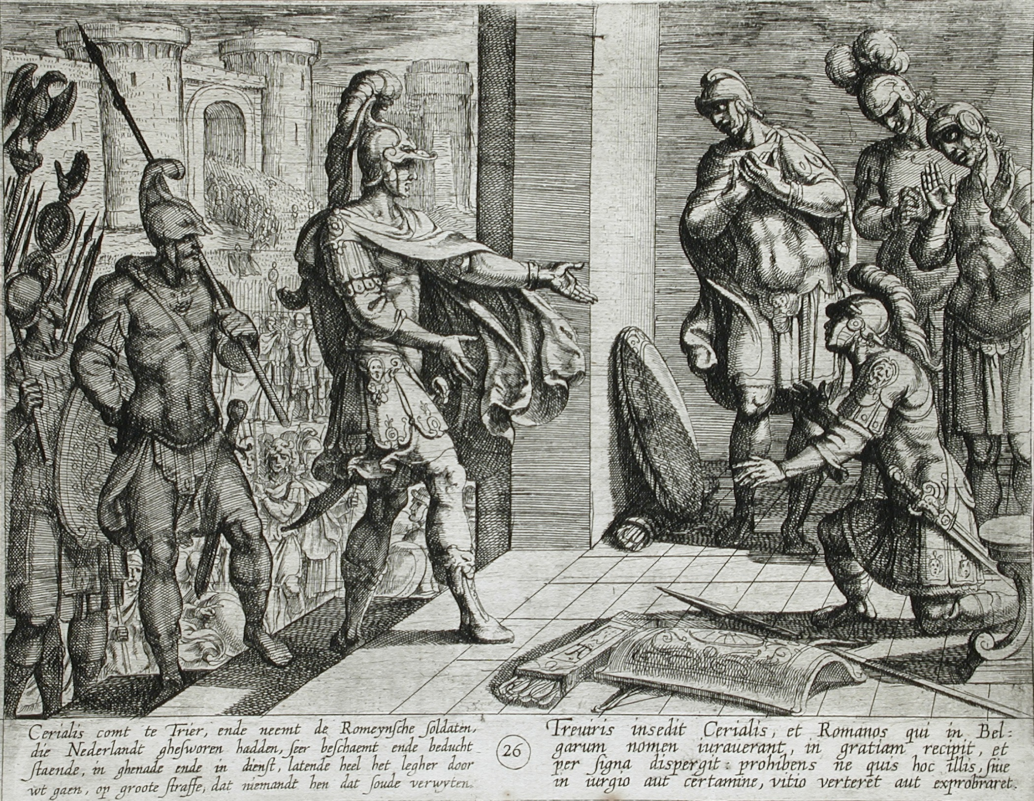 Italy, publshed 1612 Series: The War of the Romans Against the Batavians, pl. 26 Prints; etchings Etching Los Angeles County Fund (65.37.43) Prints and Drawings